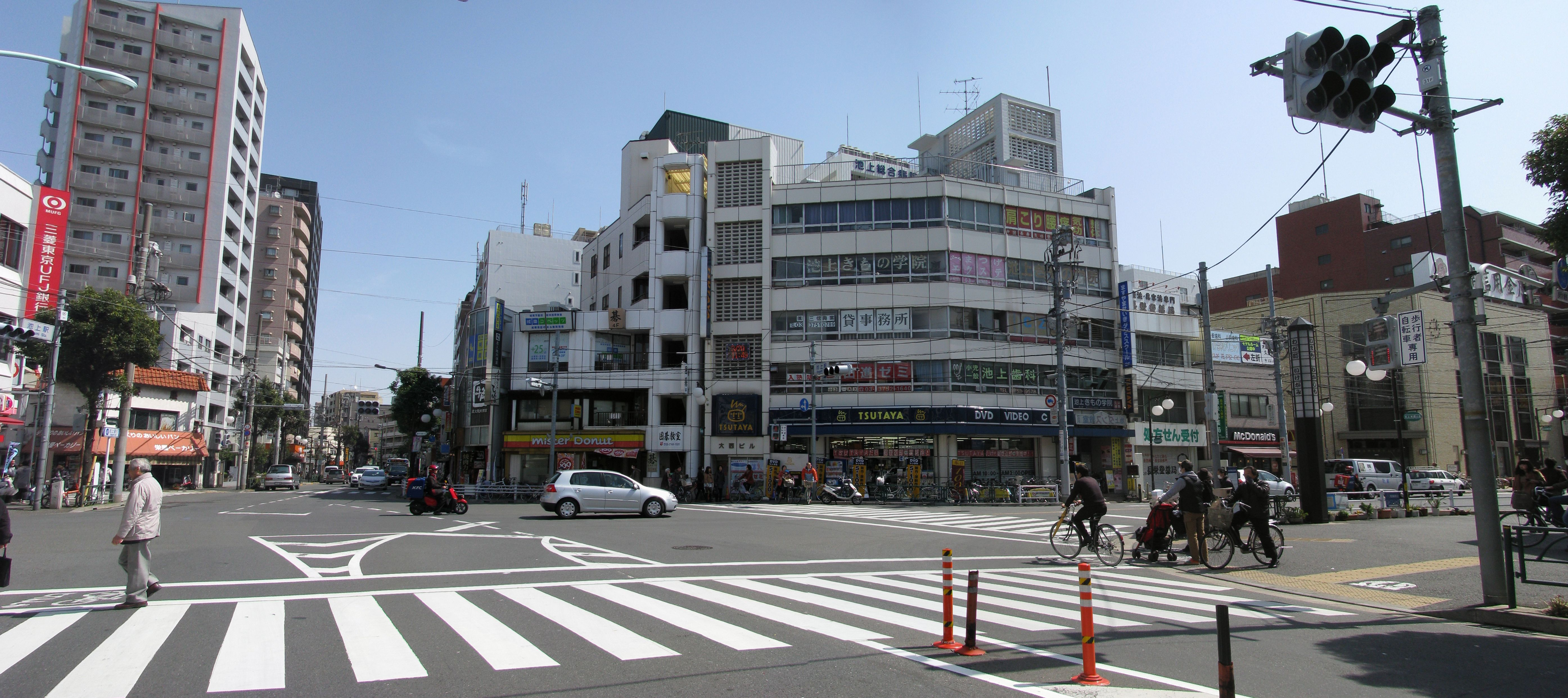 The Ikegami in Ota, Tokyo, Japan.